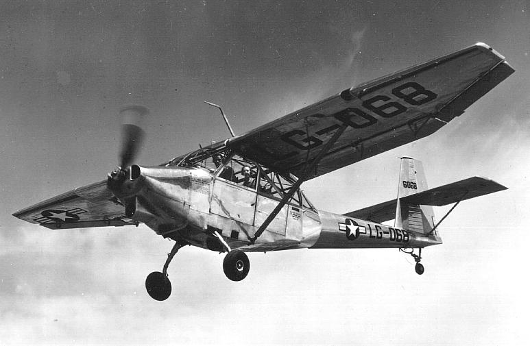 Photo of Stinson L-13 aircraft